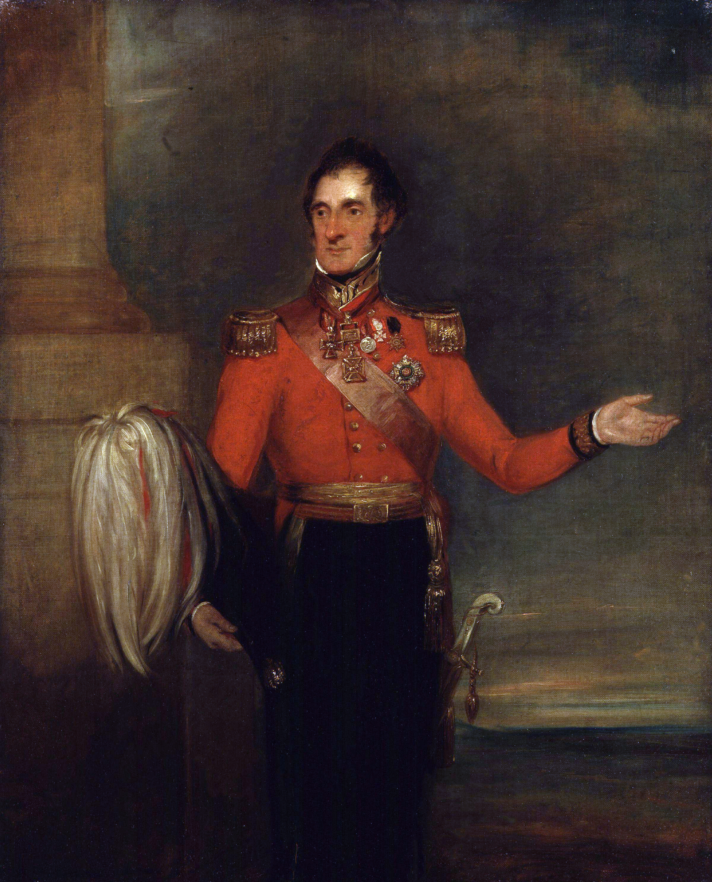 Lord Robert Edward Somerset, by William Salter (died 1875). All images in this batch have been confirmed as author died before 1939 according to the official death date listed by the NPG.